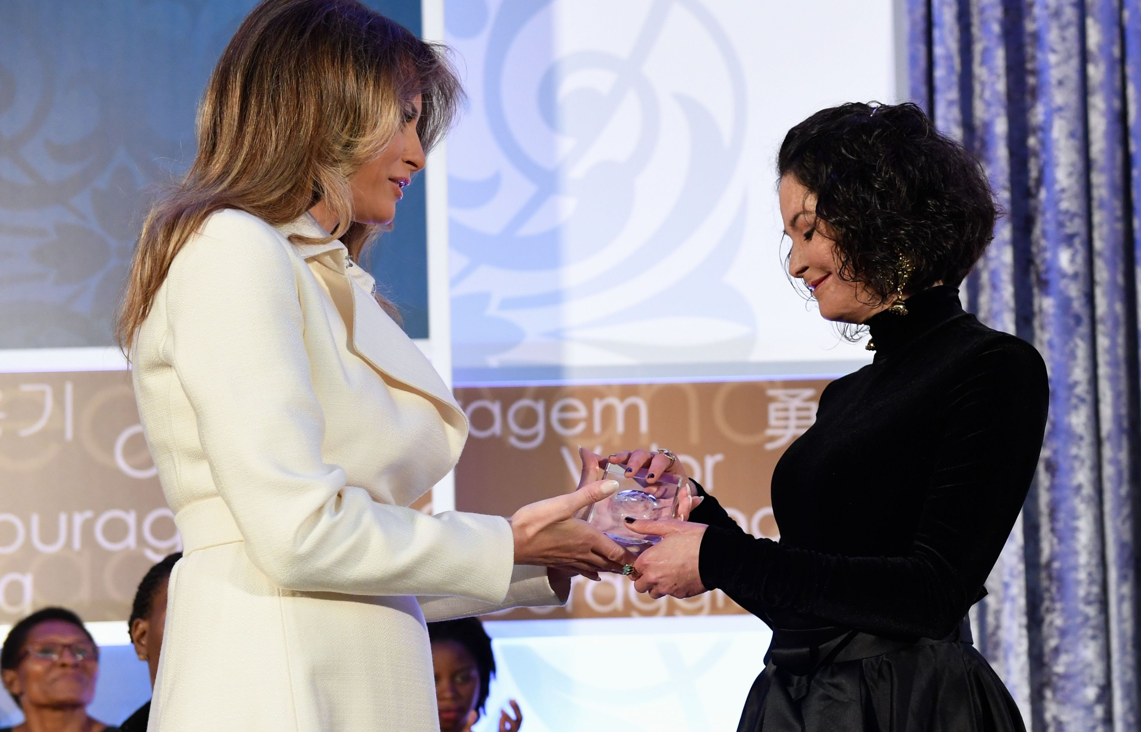 "First Lady Melania Trump presents the 2017 International Women of Courage Award to Natalia Ponce de Leon of Colombia during a ceremony at the U.S. Department of State in Washington, D.C., on March 29, 2017." "Natalia Ponce de Leon started the Natalia Ponce de Leon Foundation in April 2015 to defend, promote, and protect the human rights of acid attack victims. Her life changed in March 2014 when a stalker threw a liter of sulfuric acid on her face and body. As Natalia would say, she was "reborn from the ashes" of that attack to become a symbol of perseverance and a living testimony to the restorative power of forgiveness. In her role as an activist, she fought for and achieved the passage of a law that increased penalties for attackers using chemical agents and required the Ministry of Health to improve training in hospital burn units for acid attacks and other burn victims. The law, which bears her name, was passed on January 2016. She is now working closely with the National Institute of Legal Medicine to establish burn units throughout Colombia, ensuring burn victims receive the appropriate medical and psychological treatment. She continues to be an inspiration and an example of courage for all Colombians." [1]